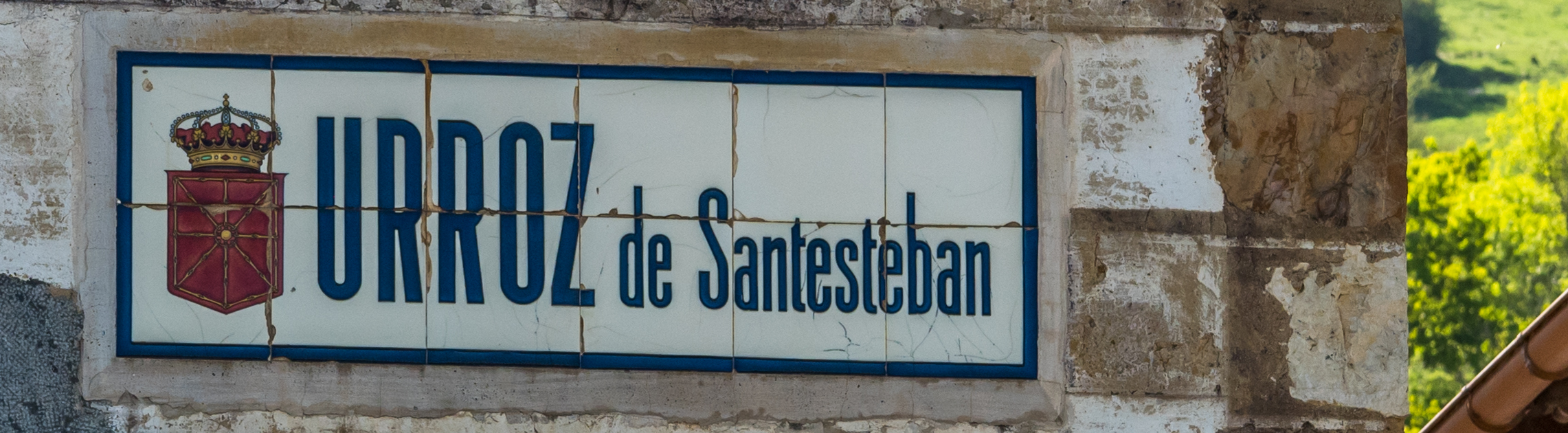 Urroz de Santesteban, Navarre, Spain